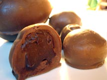 Brazilian famous candy.